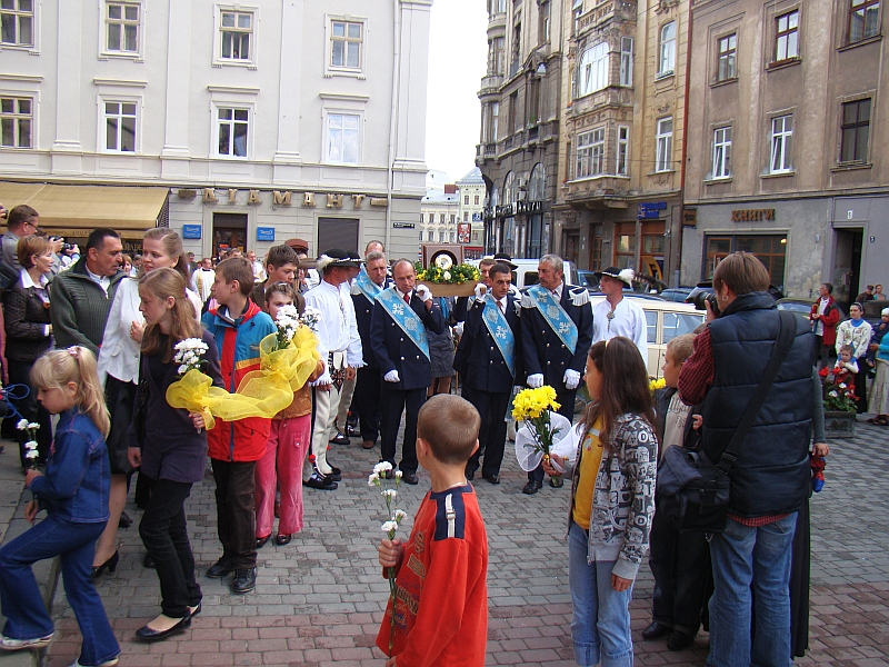 Corpus Christi in Lviv